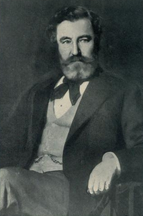 Portrait of James Douglass (1826-1998) civil engineer, designer of the fourth Eddystone Lighthouse